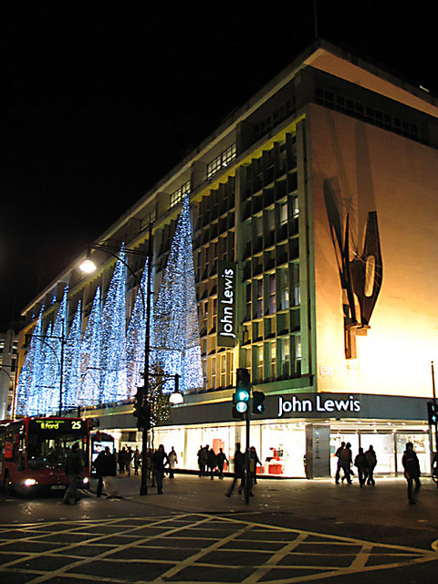 John Lewis, Oxford Street Sunday shoppers, and people enjoying the christmas lights on a chilly December evening, pass by John Lewis' Oxford Street store. The sculpture on the side of the building is entitled Winged Figure (1963) and is by Dame Barbara Hepworth.